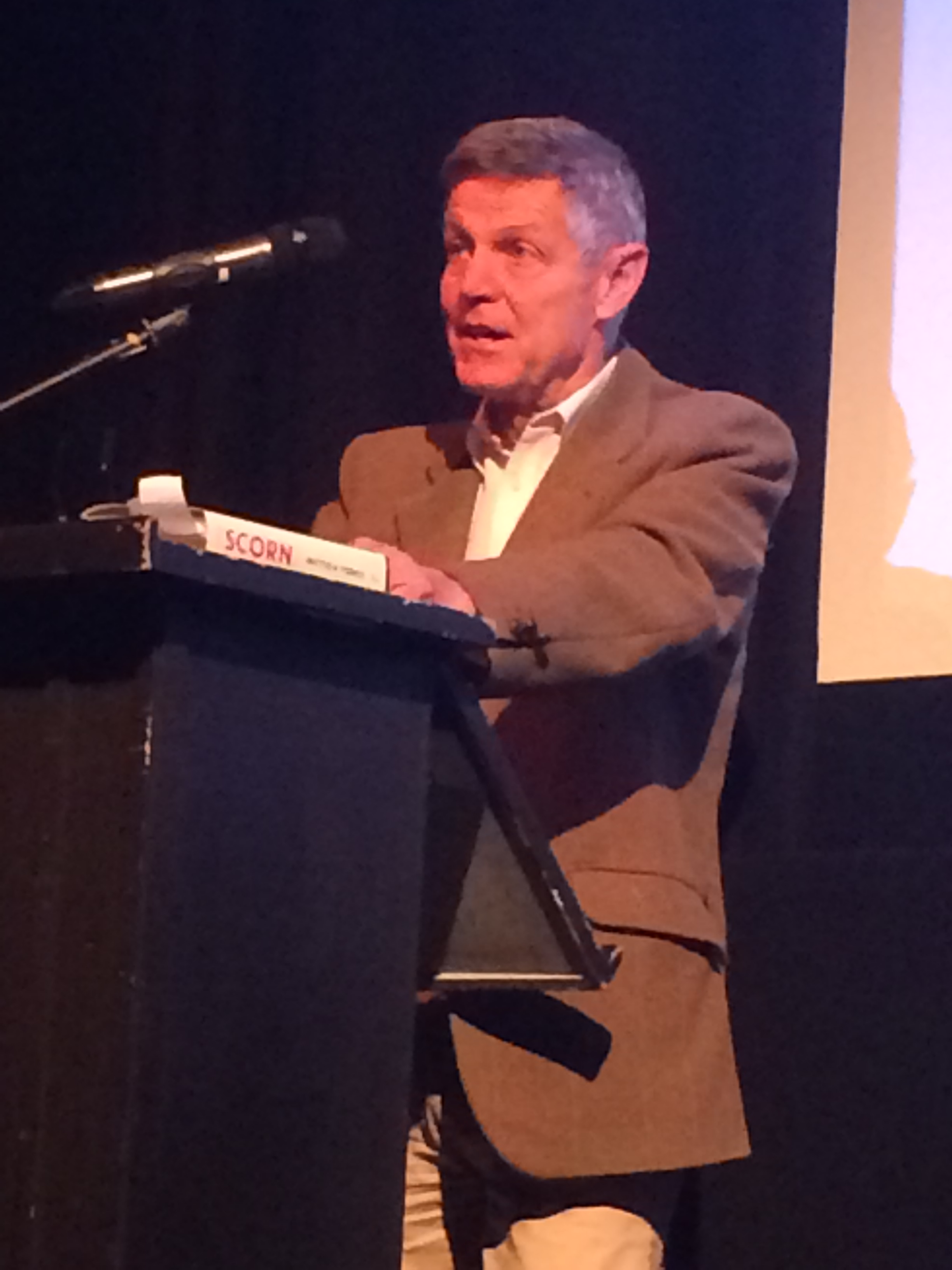 Matthew Parris speaking about the new edition of his book 'Scorn' at Derby Guildhall during Derby Book Festival, June 2017.